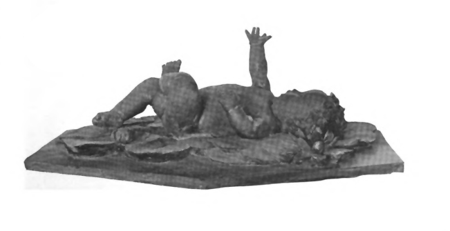 Brenda Putnam "The Water Baby, Brenda Putnam, sculptor is a delightfully human bit of modelling, a soft roly-poly baby that does not suggest a sculptor's studio, but a pink and white nursery." p. 11